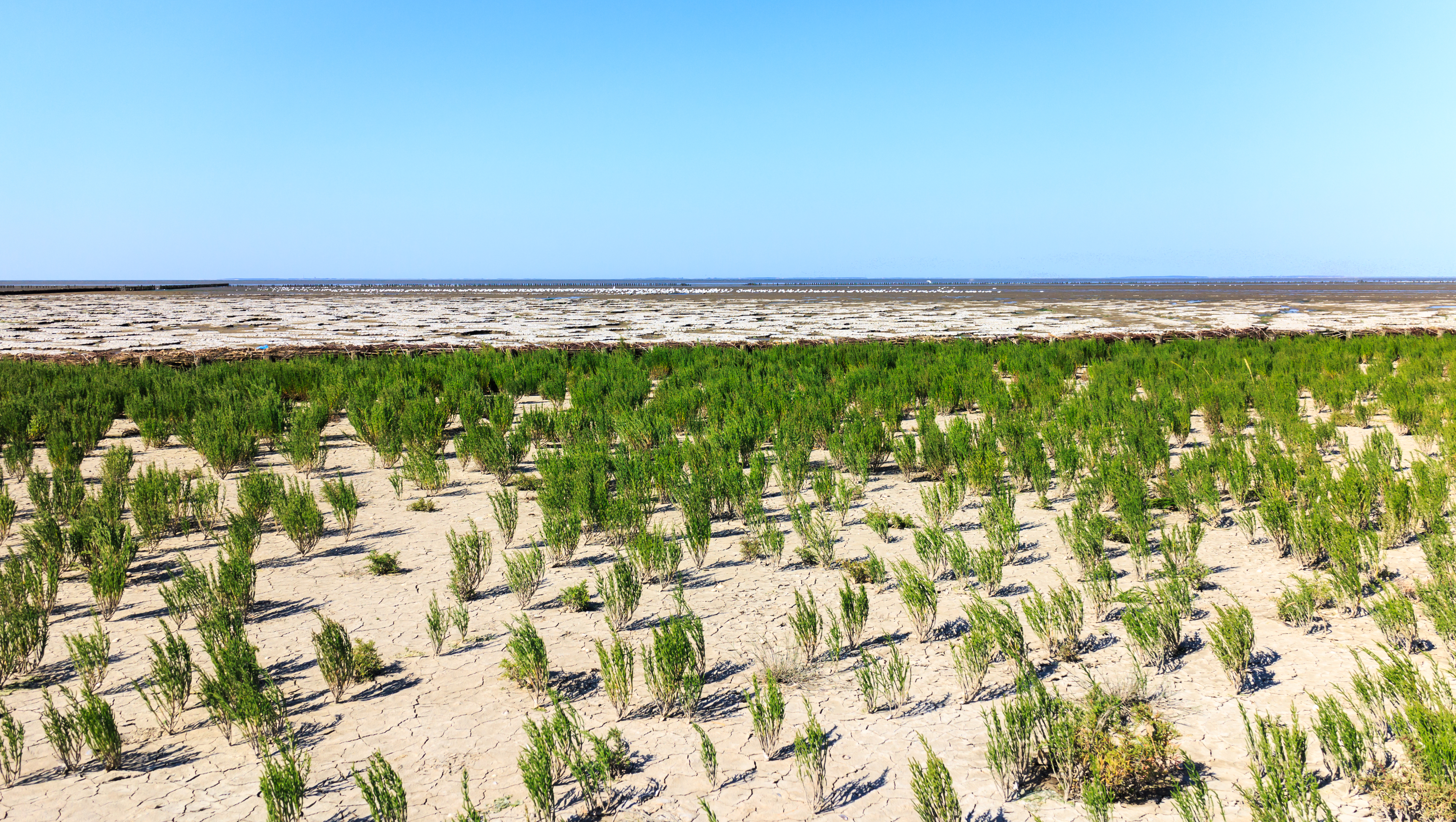 Unique by tides ever-changing marsh area. Location, Noarderleech Profince Friesland in the Netherlands.